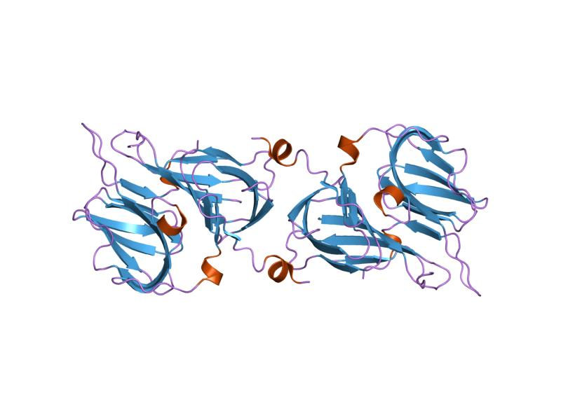 Cartoon representation of the molecular structure of protein registered with 1rc6 code.